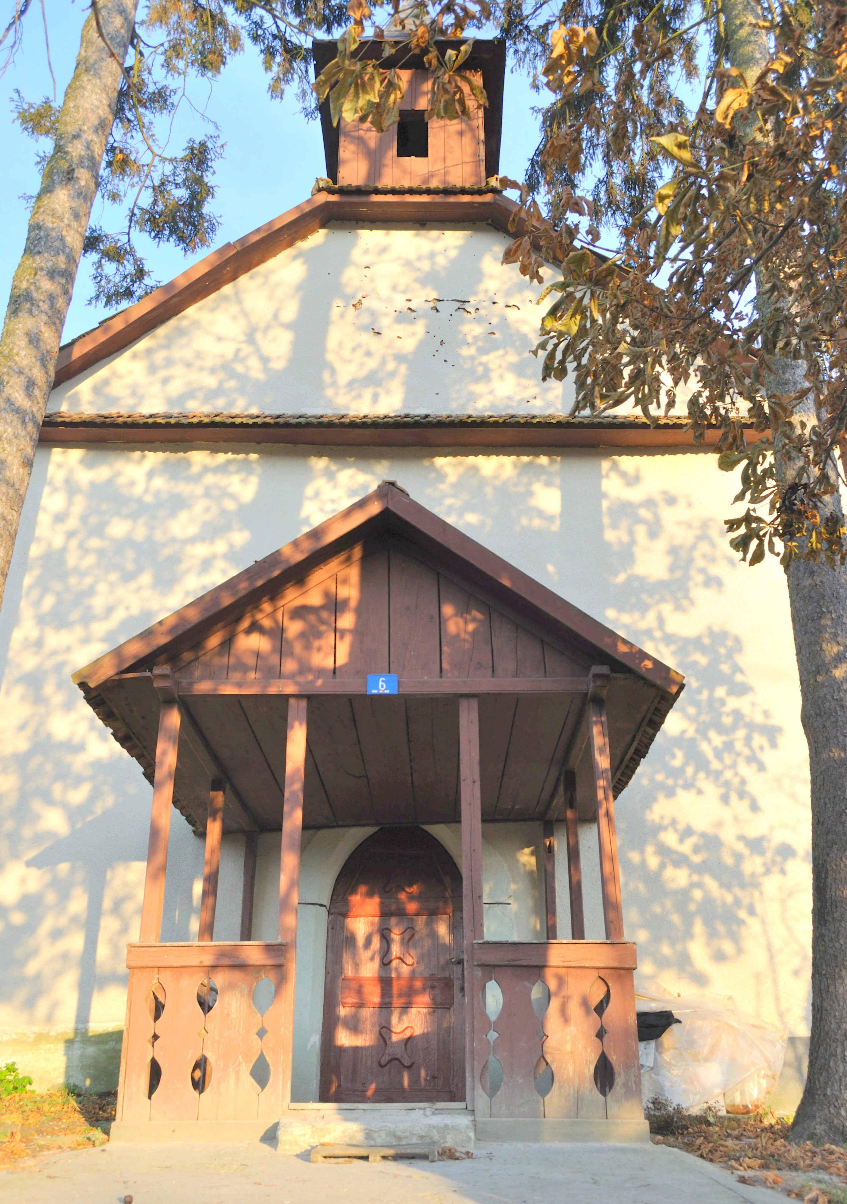 Reformed church in Stoiana, Cluj Countz, Romania